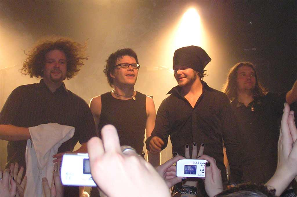 The Rasmus at the concert in Bochum